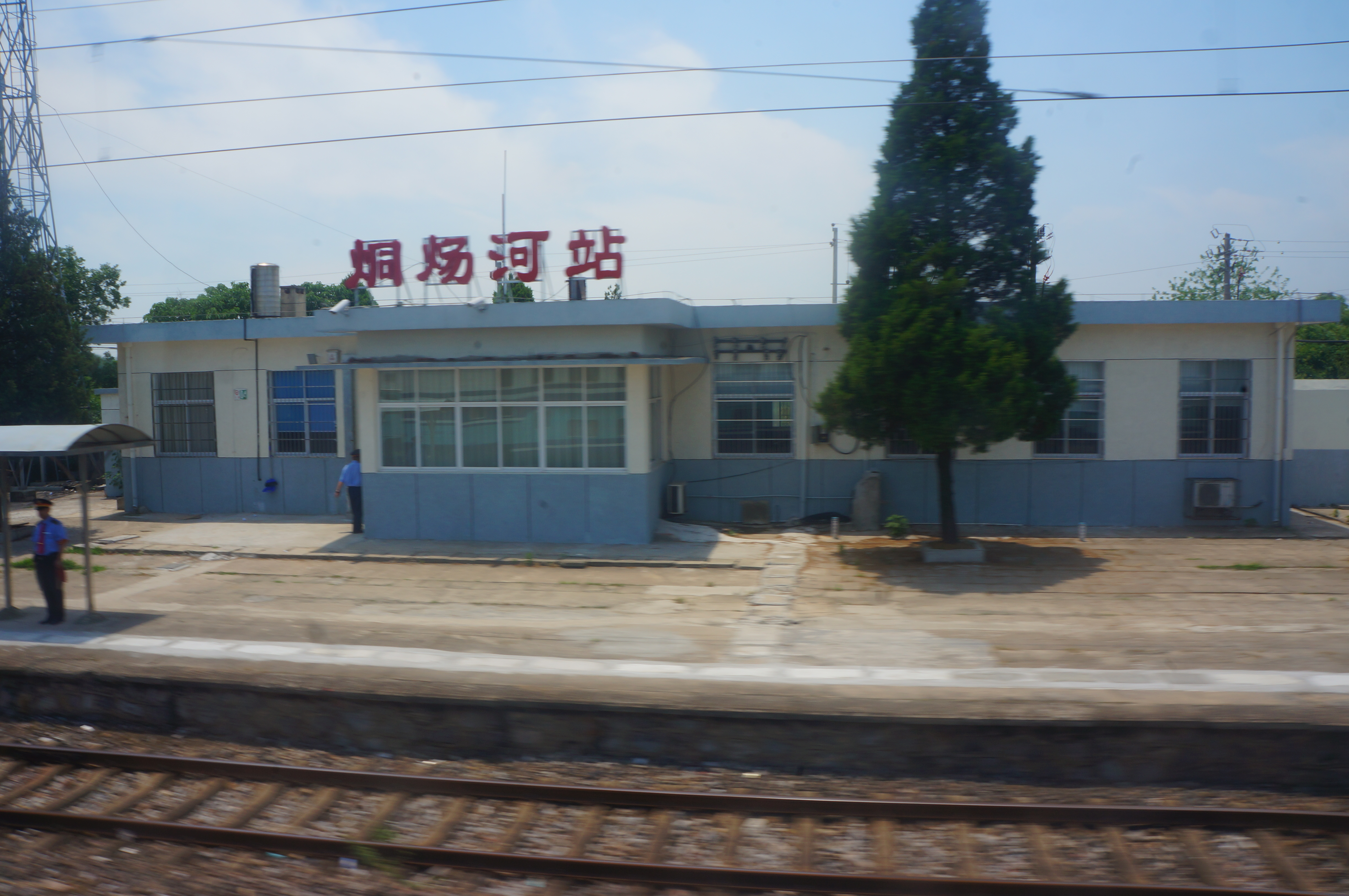 201705 Conductor of Jiongyanghe Station, so Hefei Railway Stations Administration style, it reminds me about Zhuogang Station